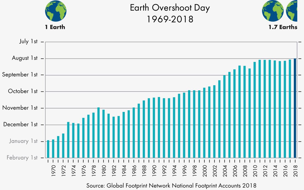 The date of Earth Overshoot Day is calculated by comparing humanity’s total yearly consumption (Ecological Footprint) with Earth’s capacity to regenerate renewable natural resources in that year (biocapacity).